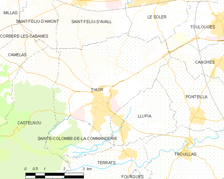 Map of French municipality